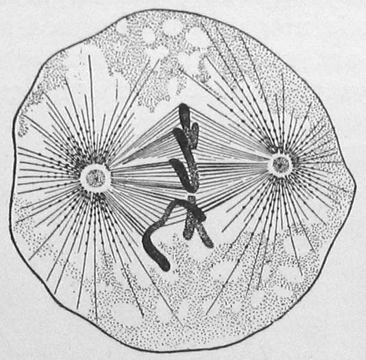 From the original figure legend: "Mitosis in the first cleavage of the Ascaris egg. Closing prophase, the equatorial plate forming." (Note: after todays nomenclature, this stage belongs to metaphase.